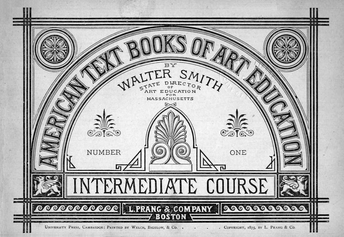 American text books of art education, title page 1875